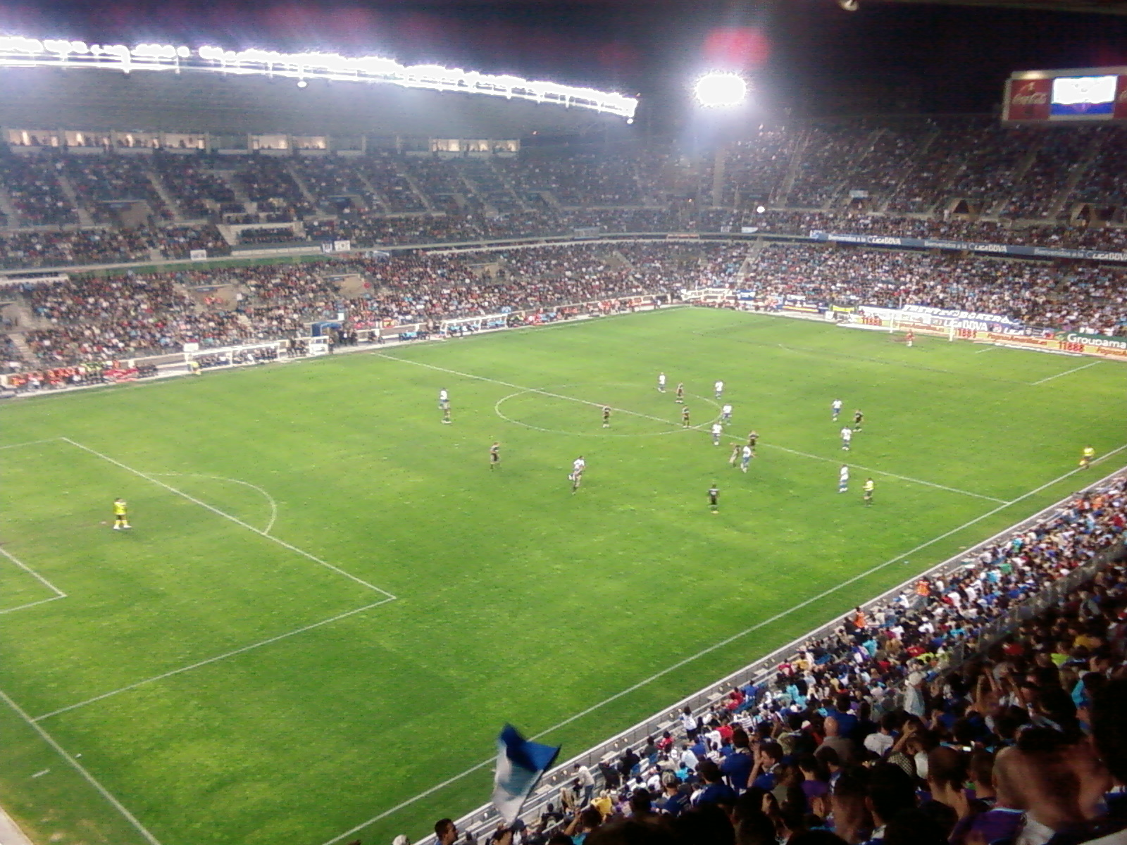 La Rosaleda Stadium in Málaga, Spain